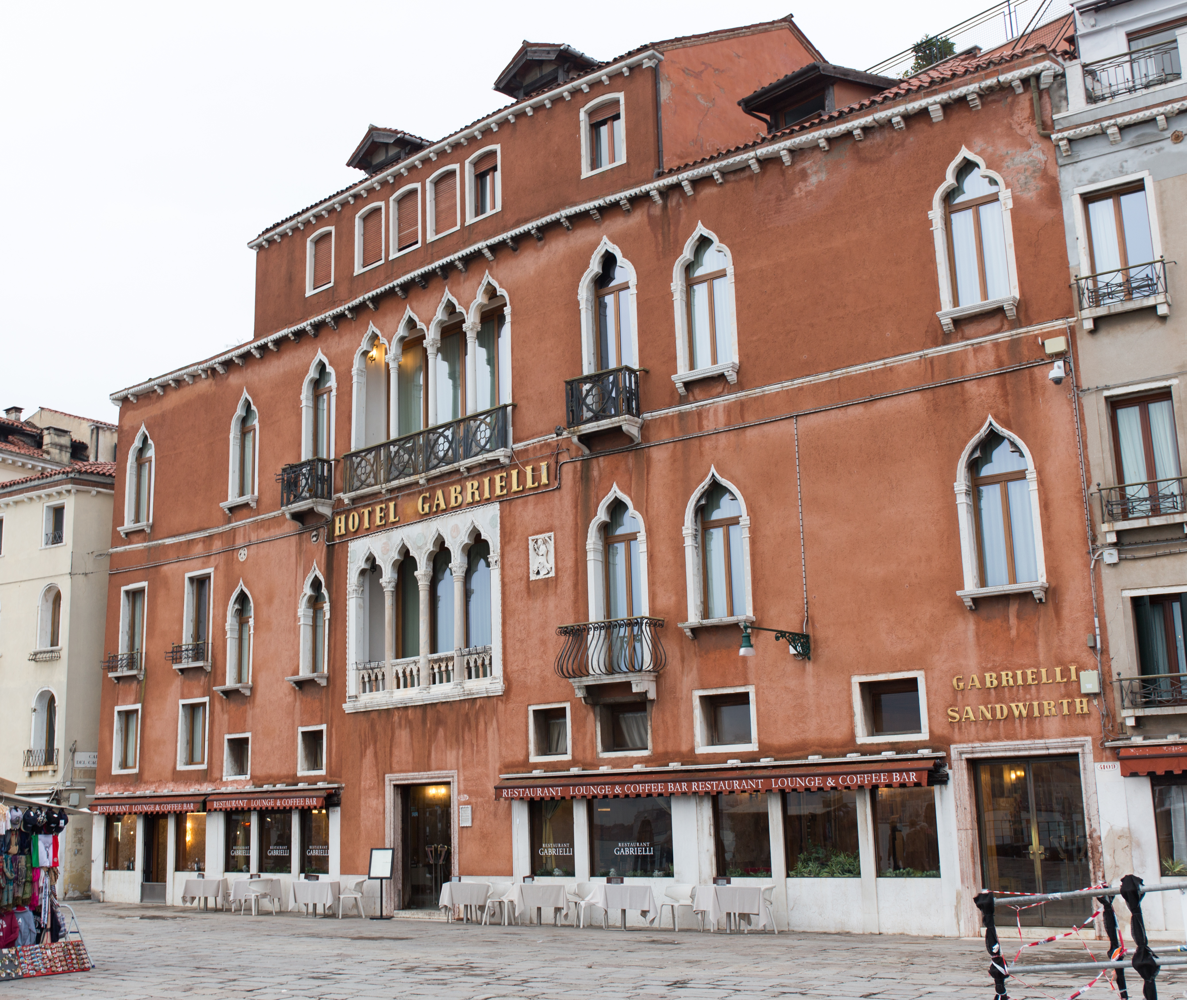 Venedig Hotel Gabrielli